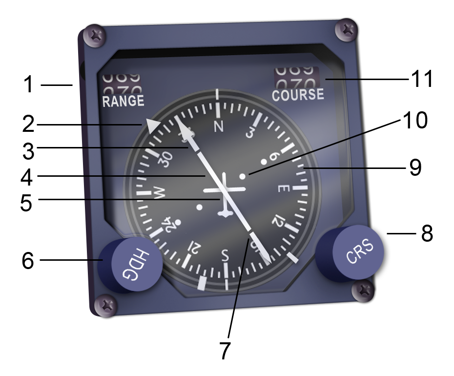 horizontal situation indicator